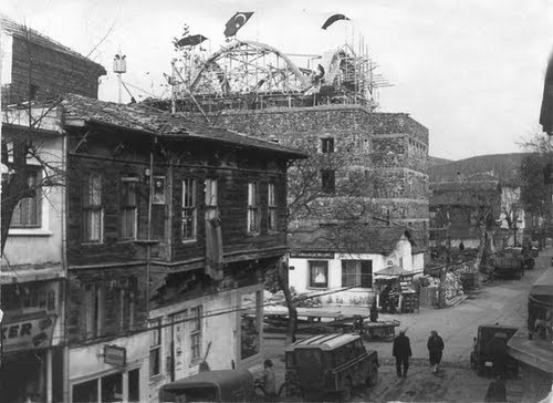 Pendik (Istanbul) 1960